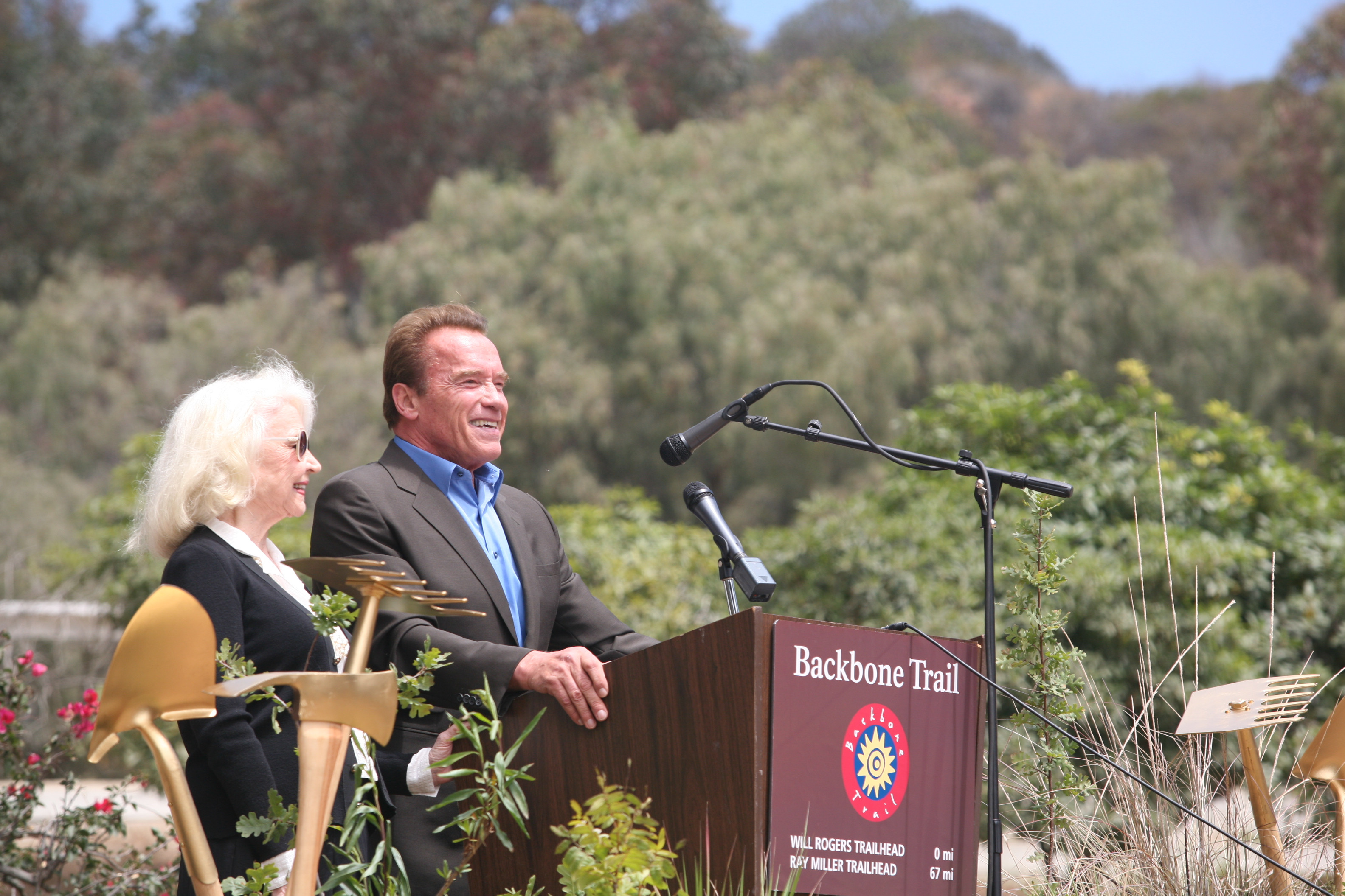 One of the key actions to complete the trail was the generous donation of a 40-acre parcel of land in Zuma Canyon by former Governor Arnold Schwarzenegger and fitness entrepreneur Betty Weider. The property, valued at more than $500,000, represents the single largest private donation for the Backbone Trail.